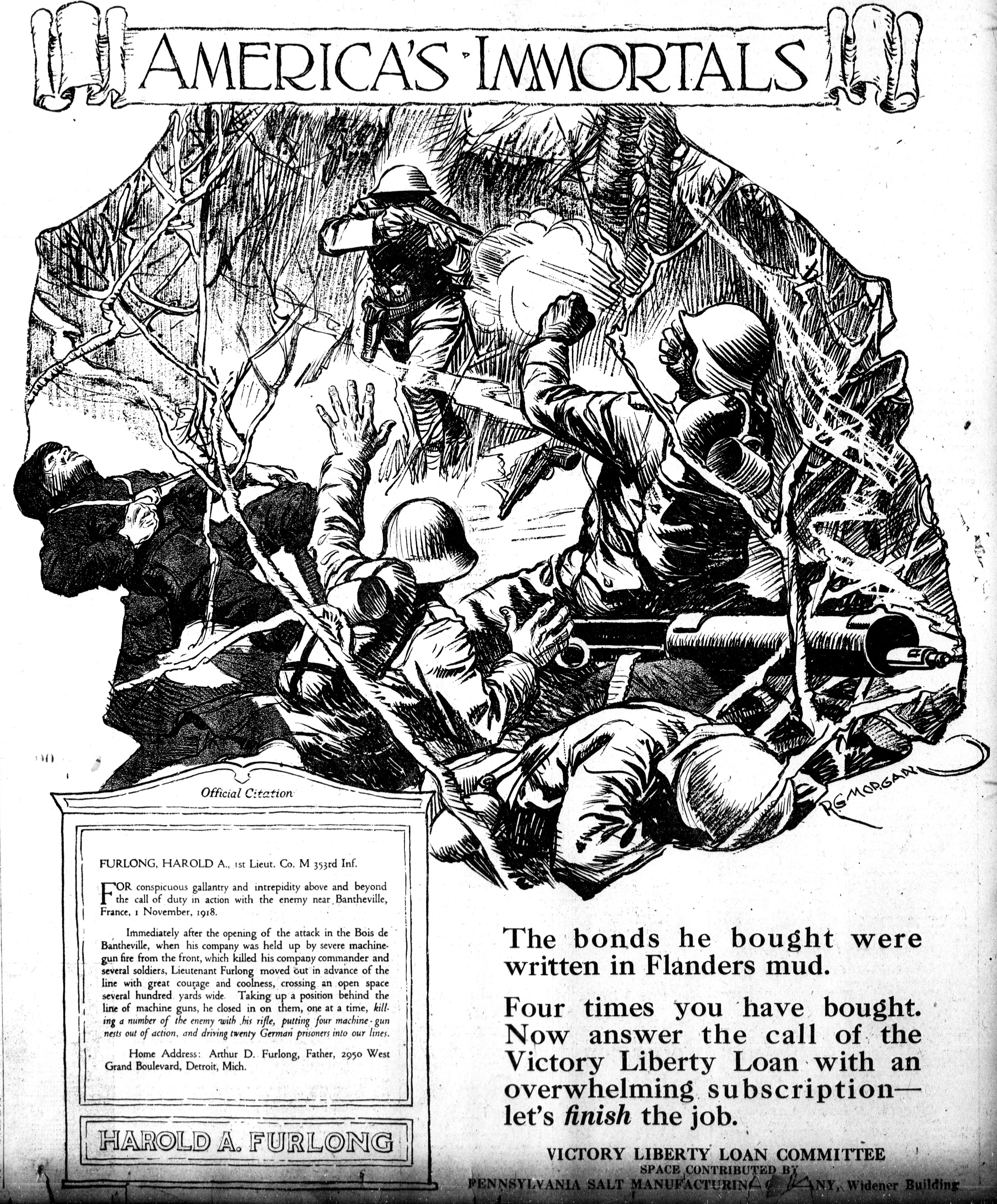 "Harold A. Furlong., 1st Lieut. Co. M 353rd Inf. FOR conspicuous gallantry and intrepidity above and beyond the call of duty in action with the enemy near Bantheville, France, 1 November, 1918. Immediately after the opening of the attack in the Bois de Bantheville, when his company was held up by severe machinegun fire from the front, which killed his company commander and several soldiers, Lieutenant Furlong moved out in advance of the line with great courage and coolness, crossing an open space several hundred yards wide. Taking up a position behind the line of machine guns, he closed in on them, one at a time, killing a number of the enemy with his rifle, putting four machine-gun nests out of action, and driving twenty German prisoners into our lines. Home Address: Arthur D. Furlong, Father, 2950 West Grand Boulevard, Detroit, Michigan"